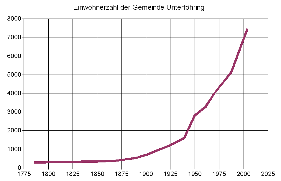 Inhabitants of the town Unterföhring, Germany